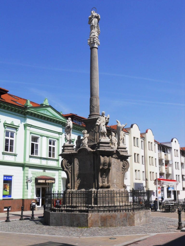 Strakonice St-Mary column